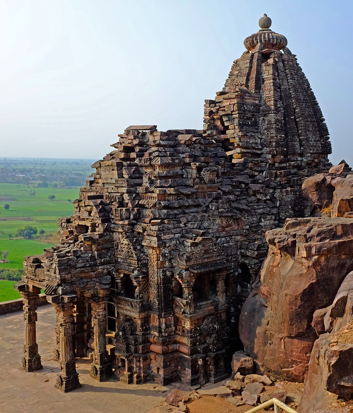 Mala Devi temple